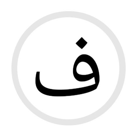 HS Letter (arabic alphabet)